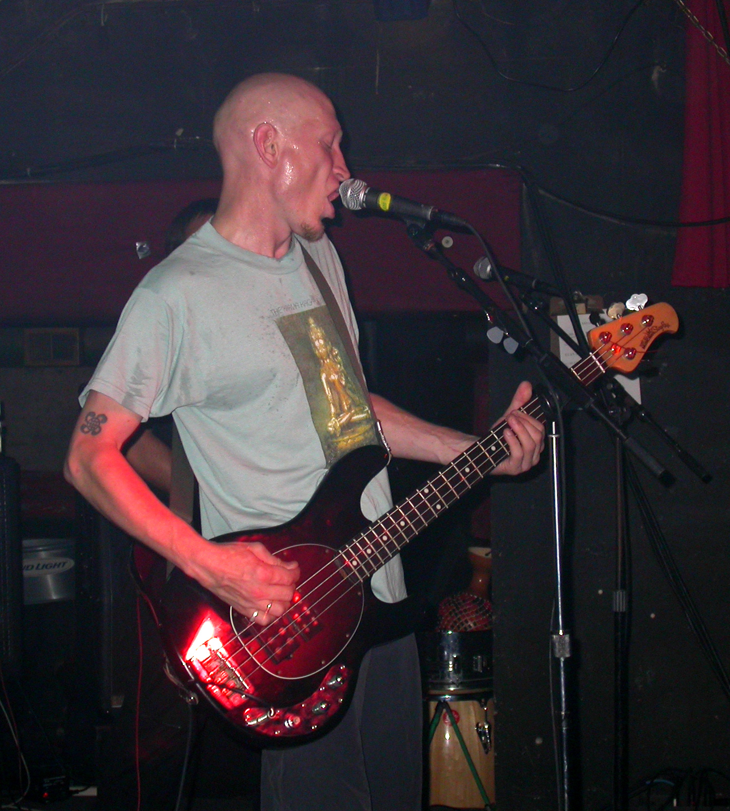 Eugeniy Fedorov during TequilaJazz concert in Chicago on Sep 29, 2002. (